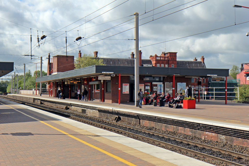 Station buildings, Wigan North Western railway station